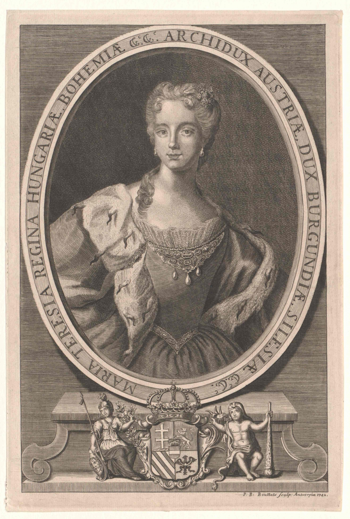 La emperatriz María Teresa, grabado de Pieter Balthazar Bouttats firmado y fechado en Amberes, 1742